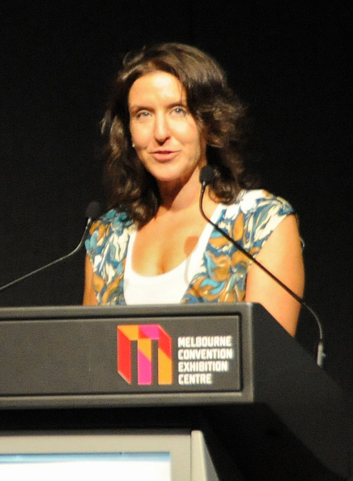 Leslie Cannold at the 2010 Global Atheist Convention